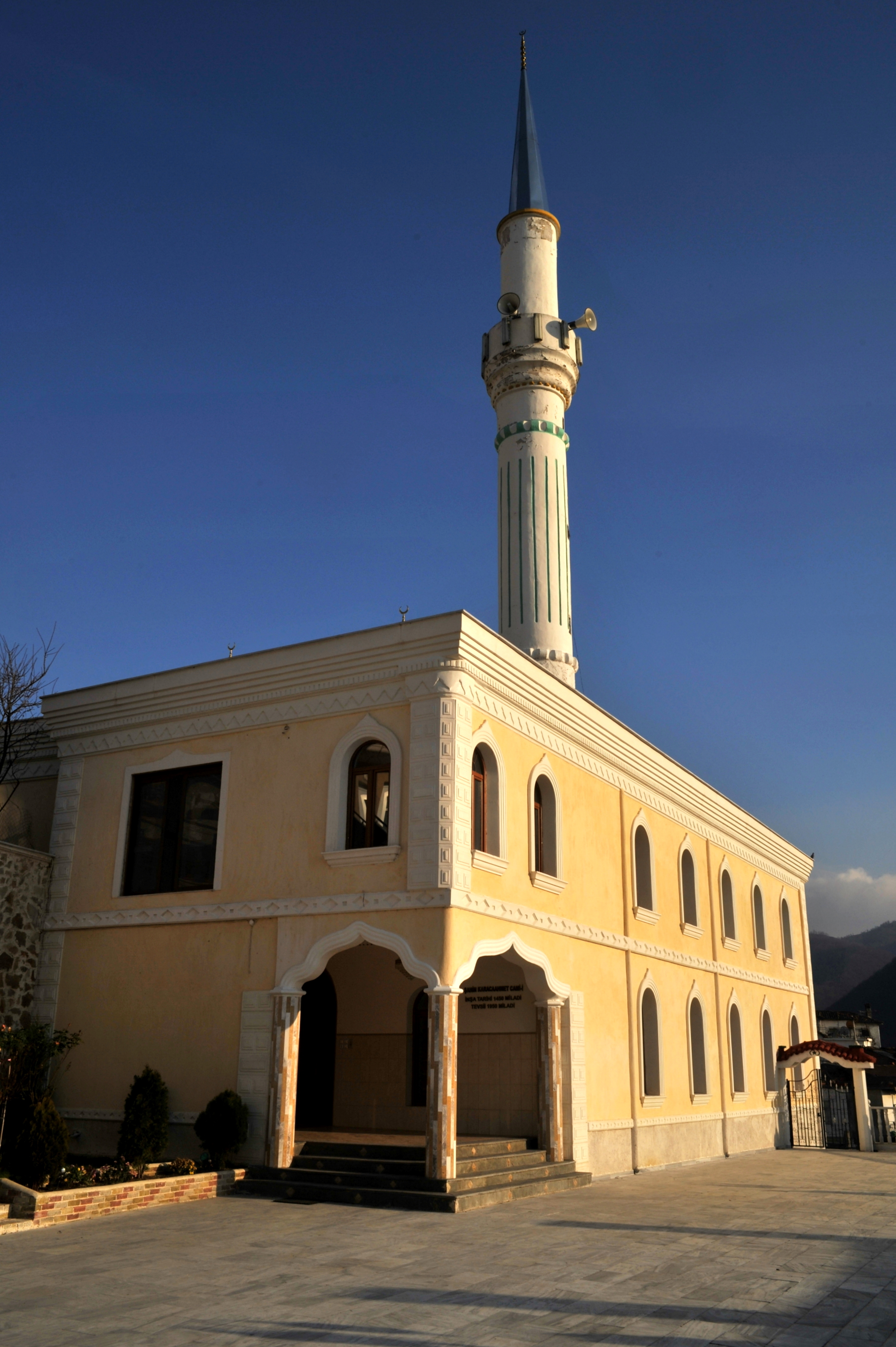 Ehinos mosque, Xanthi, Thrace, Greece.